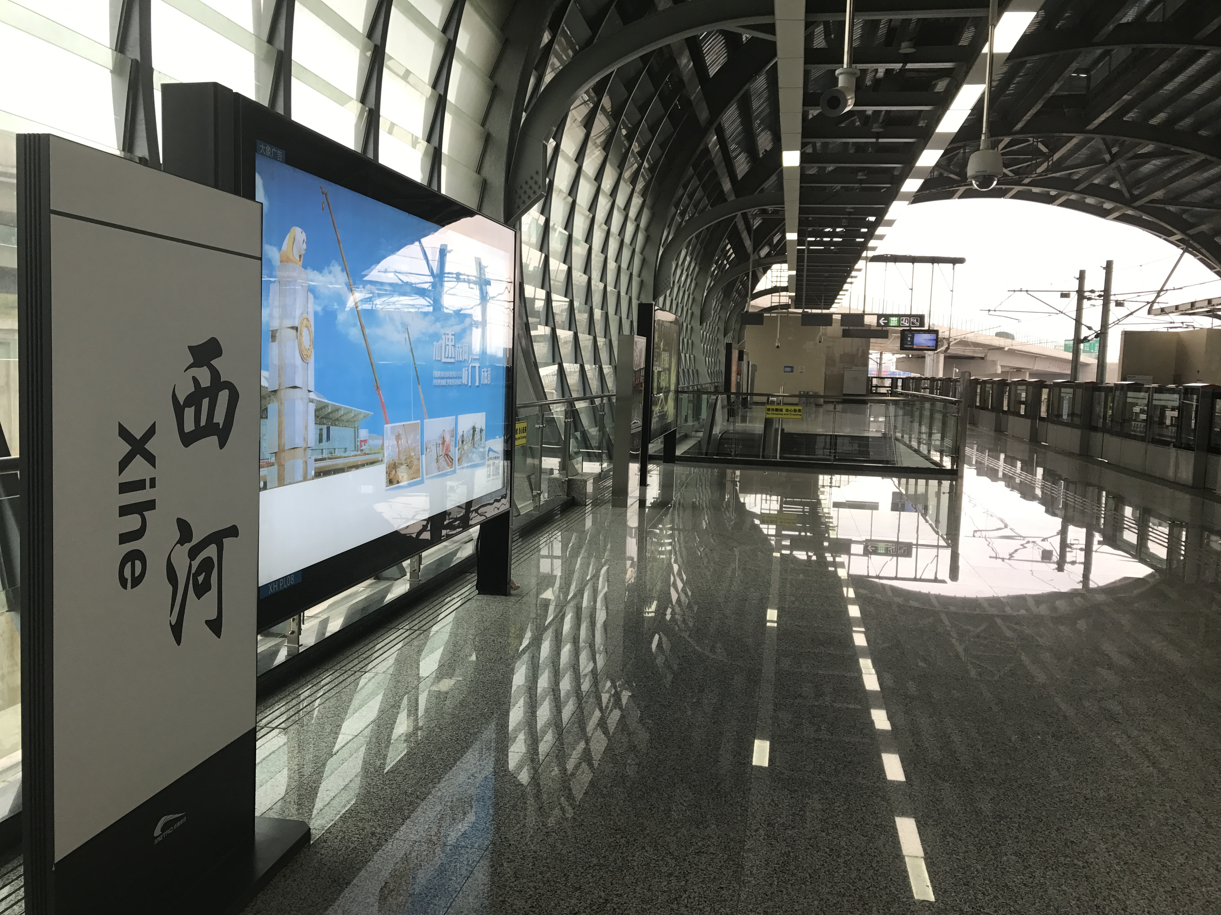 Platform of Xihe Station, Chengdu Metro